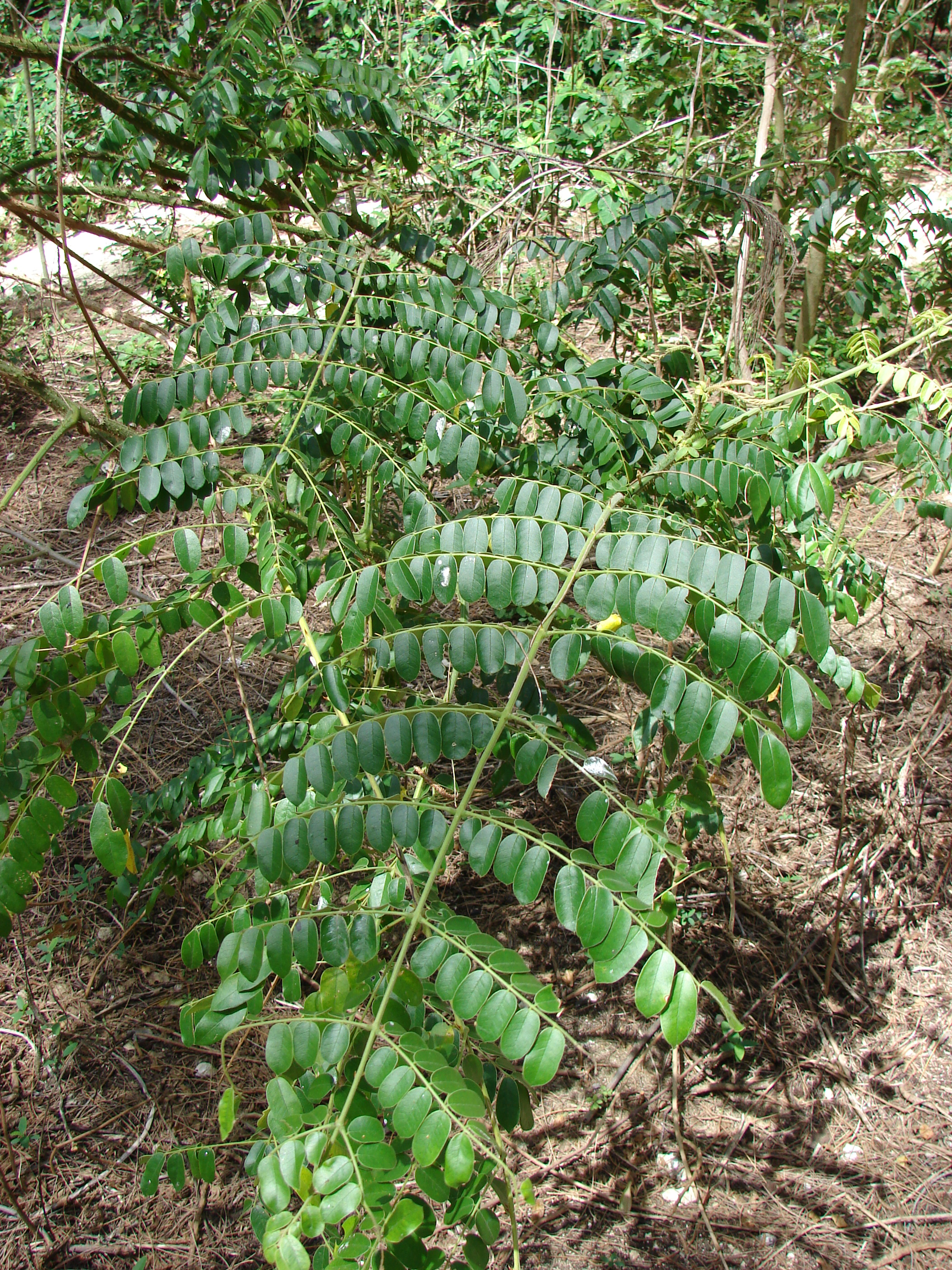 Caesalpinia bonduc (leaves). Location: Midway Atoll, Roosevelt Ave Sand Island